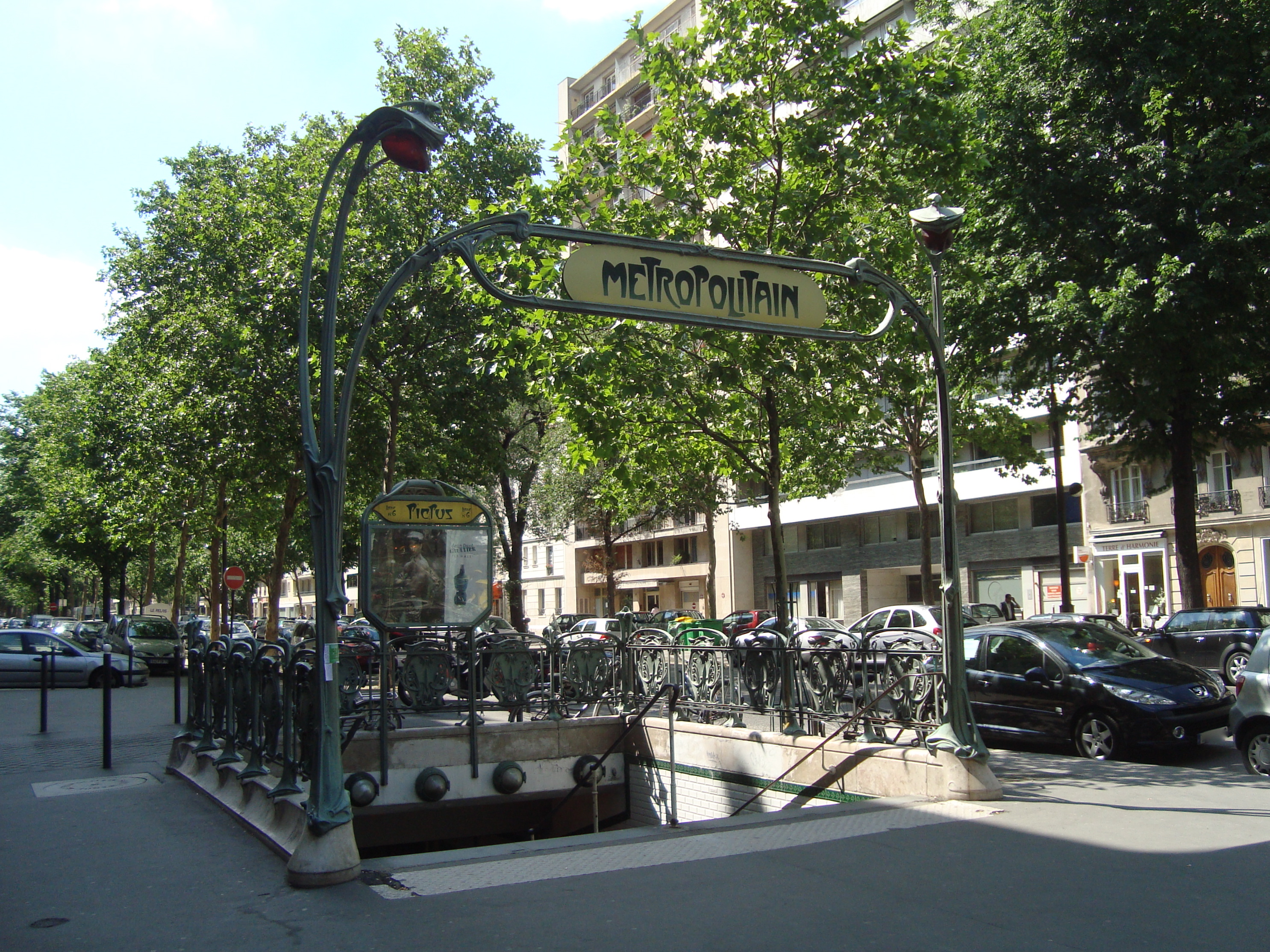 Picpus subway station's entrance at avenue de Saint-Mandé on line 6 in Paris